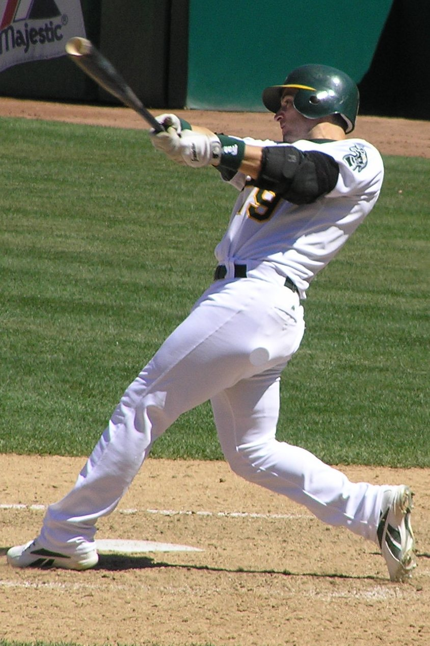 Photo by Justin Lafferty 01:47, 24 August 2006 . . Jlaff . . 844×1266 (217,682 bytes)